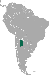 Thylamys sponsorius range